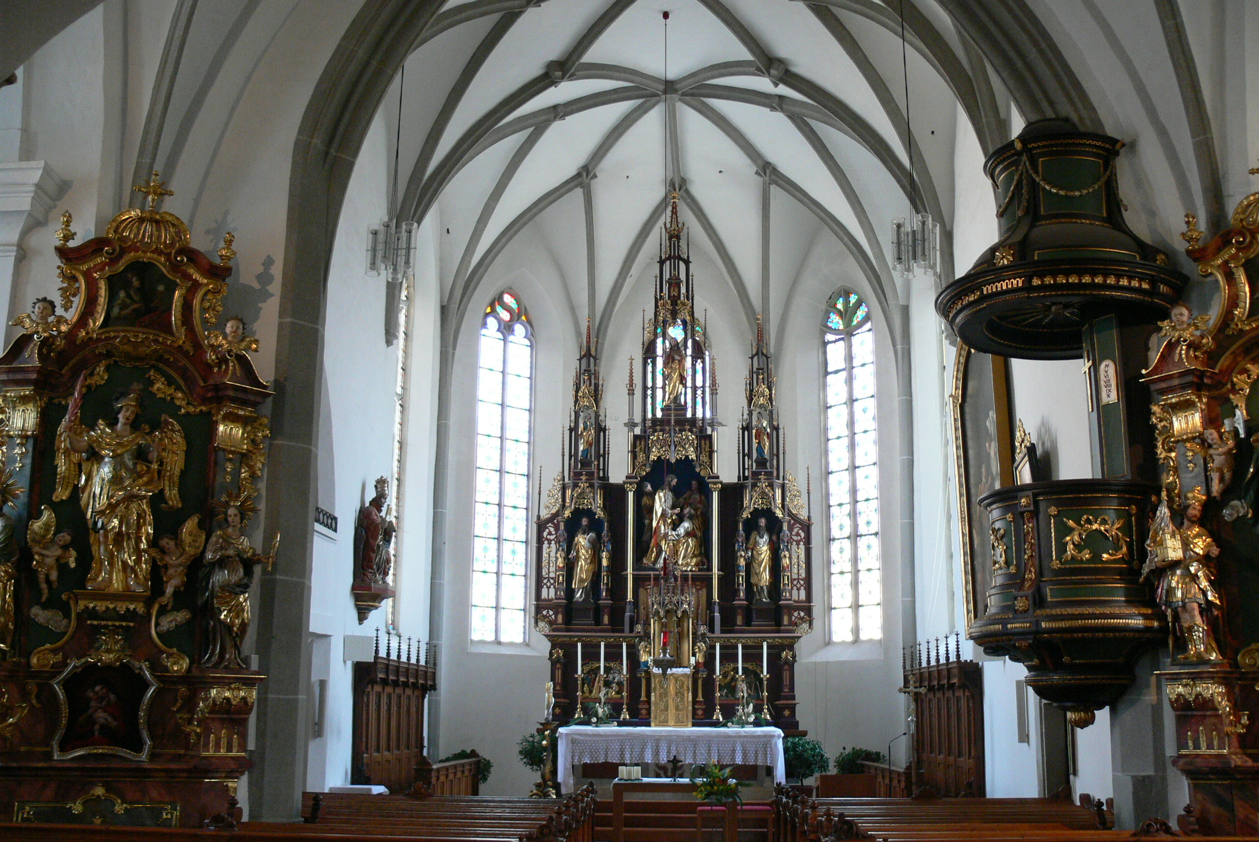 Sarleinsbach ( Upper Austria ). Saint Peter parish church: Interior.